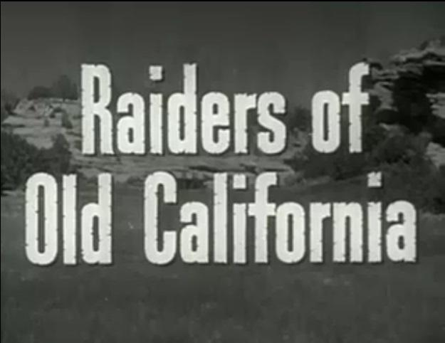 "Riaders of Old California" title screen